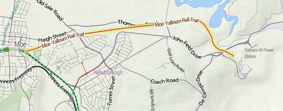 Map of Moe-Yallourn Rail Trail Cartography by Steve Bennett, data by OpenStreetMap contributors.